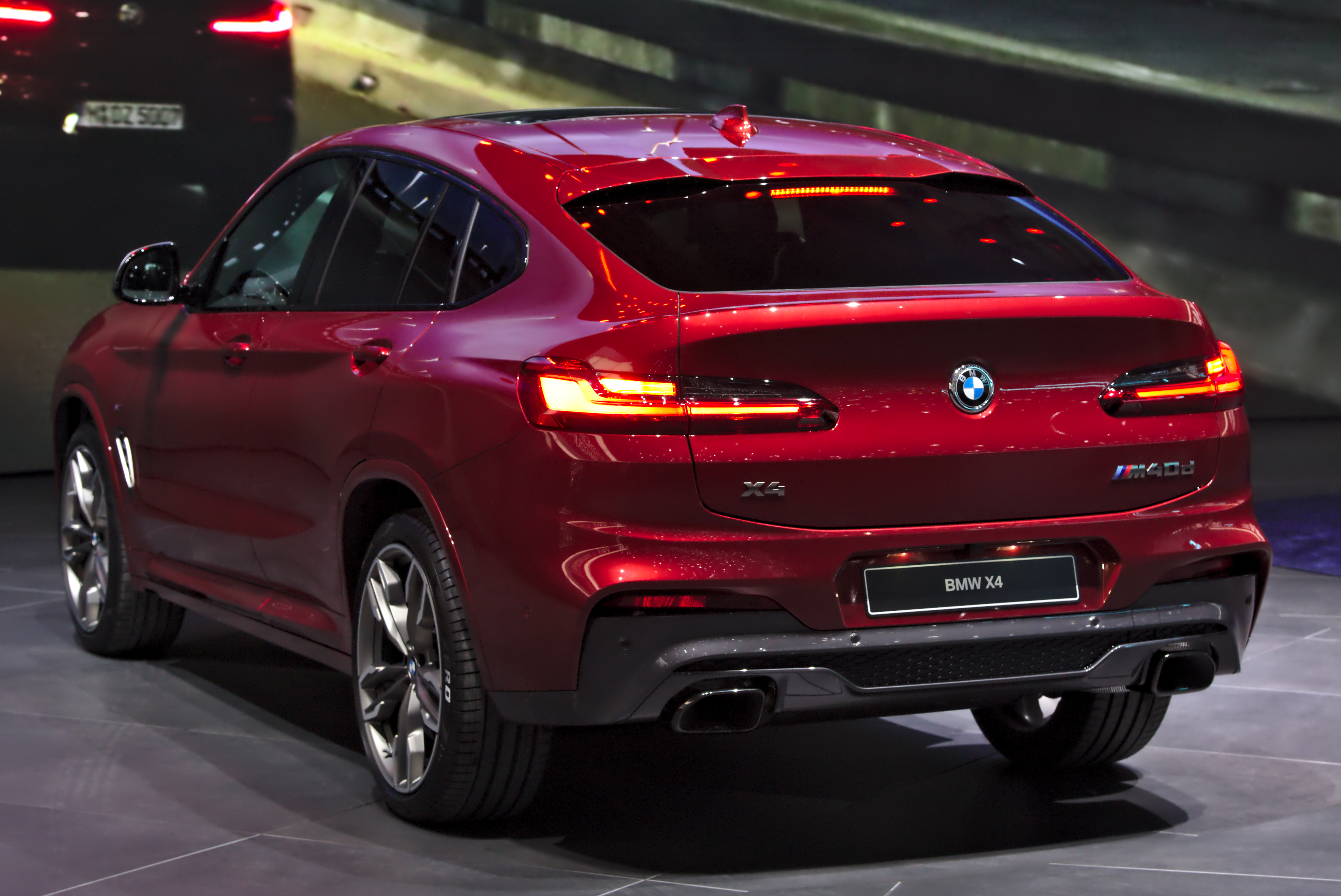 BMW X4 at Geneva Motorshow 2018